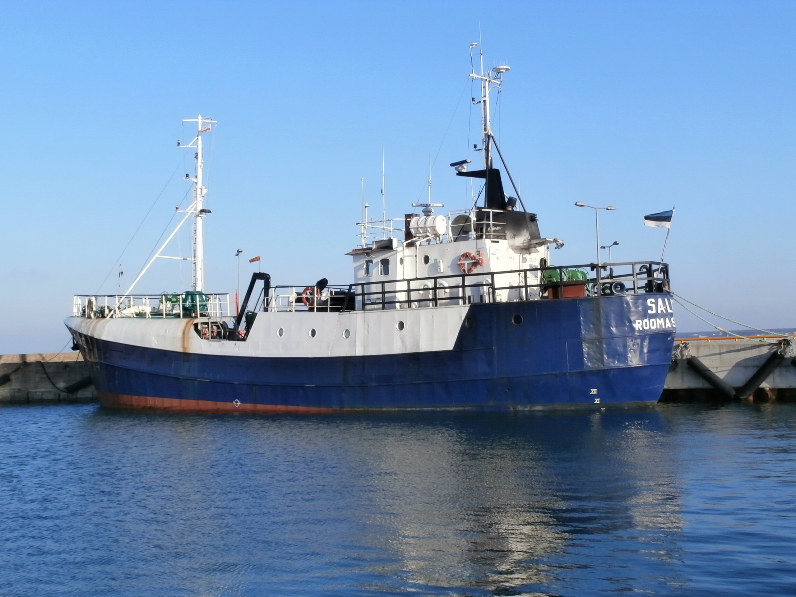 Salme at quay B in Lennusadam Tallinn 30 January 2015